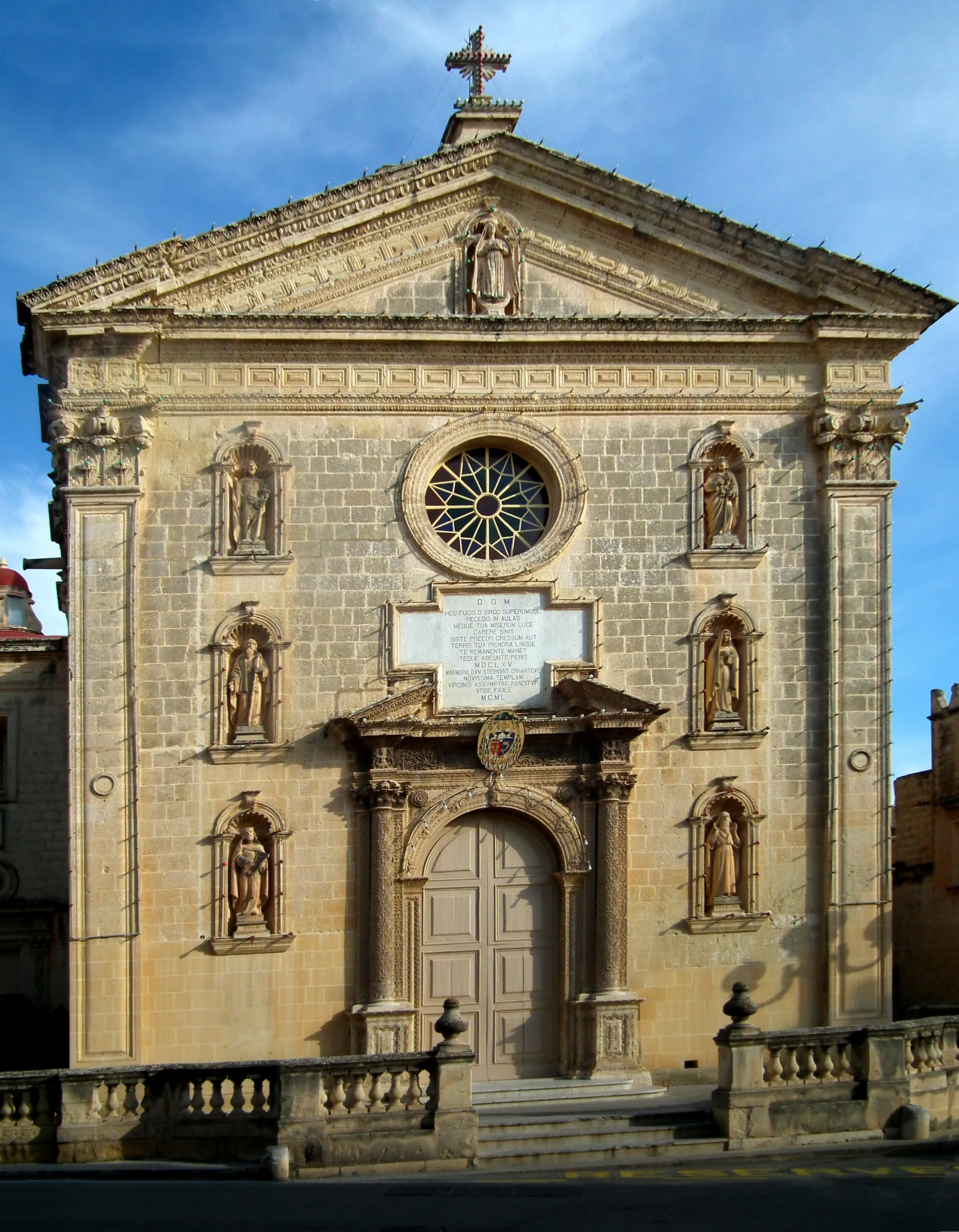 Malta